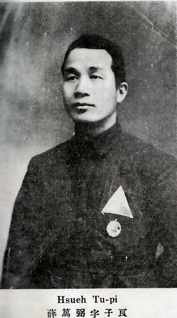 Xue Dubi (Hsueh Tu-pi), Ziliang (1892 - 1973)